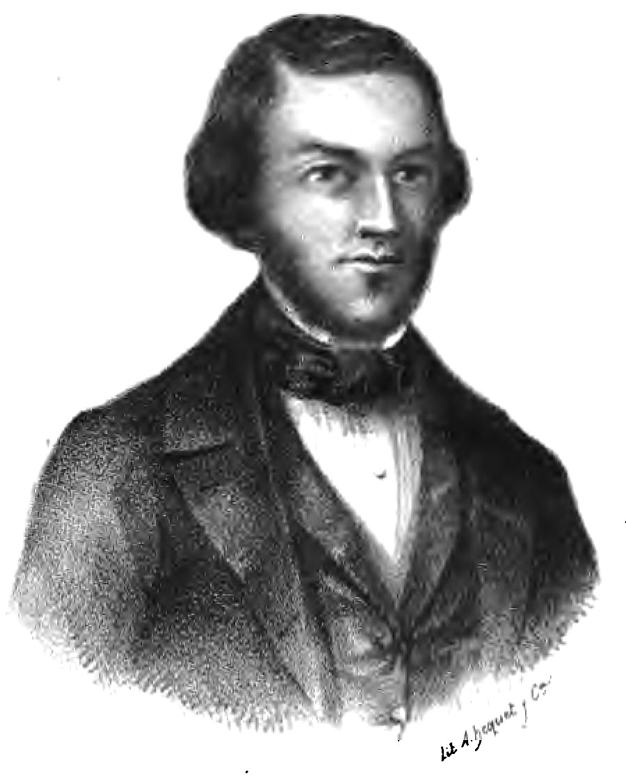 pg 8a of Poesías.